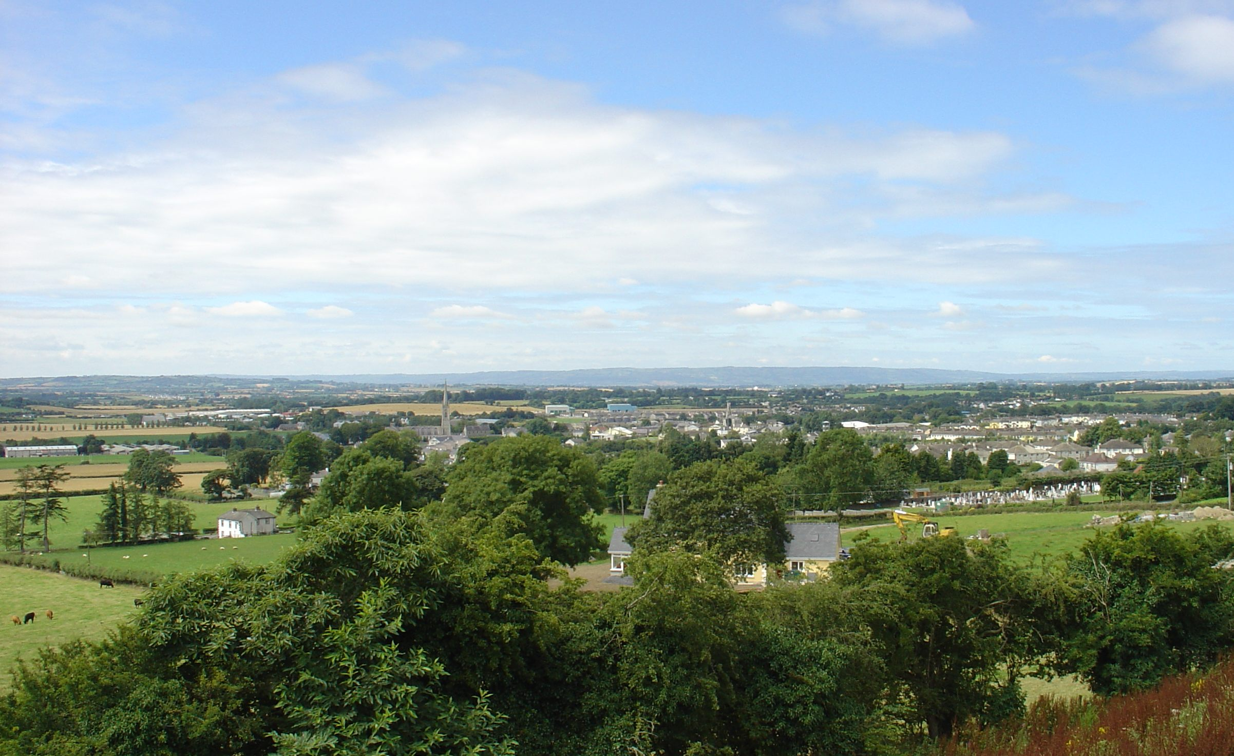 Tullow